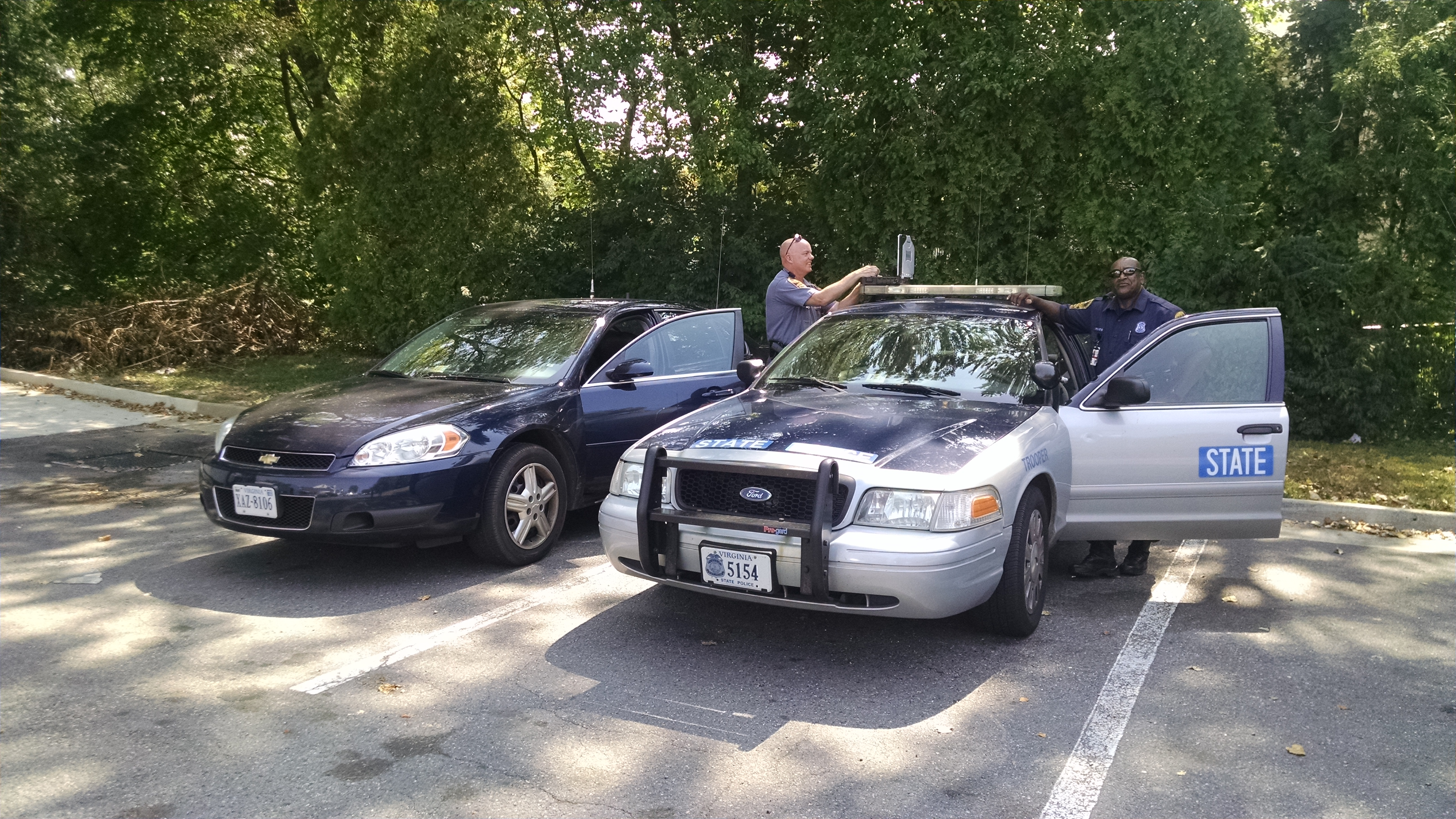 The Virginia State Police are having a lunch break at Santini's right at Oakton, VA (in Fairfax County). One of them drives the Impala and the other drives the Crown Victoria.